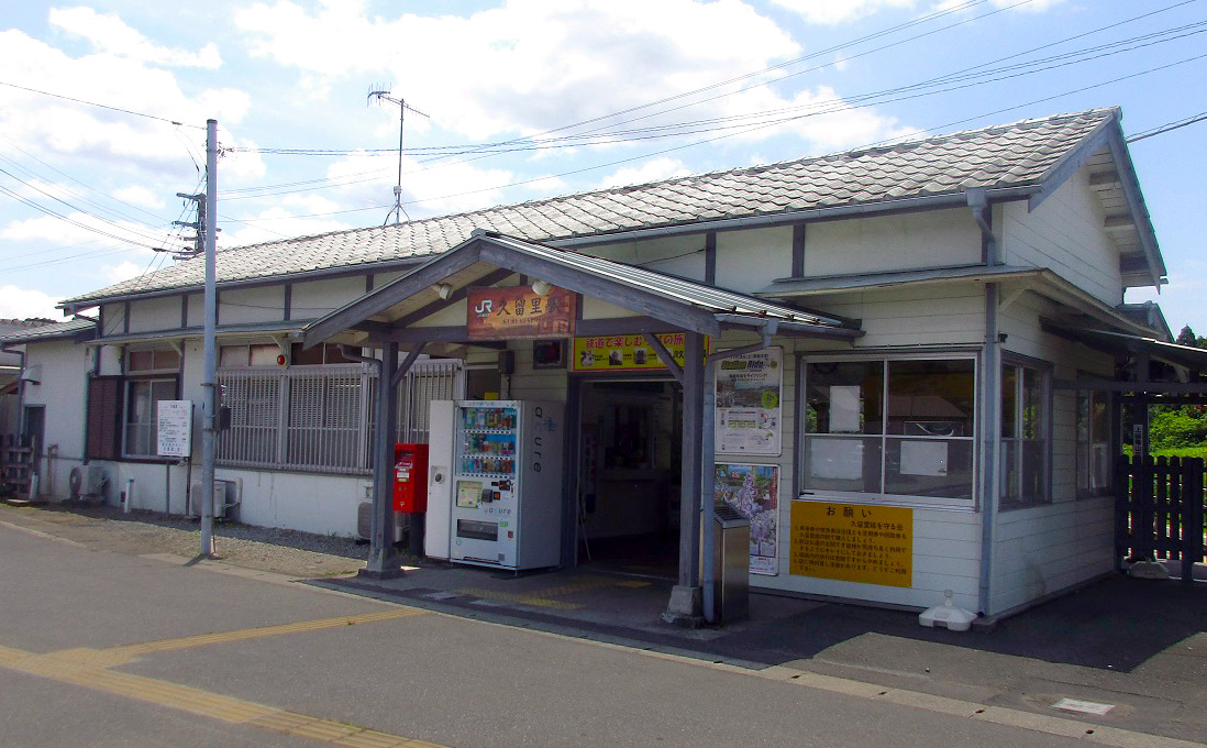 JR久留里線 久留里駅舎